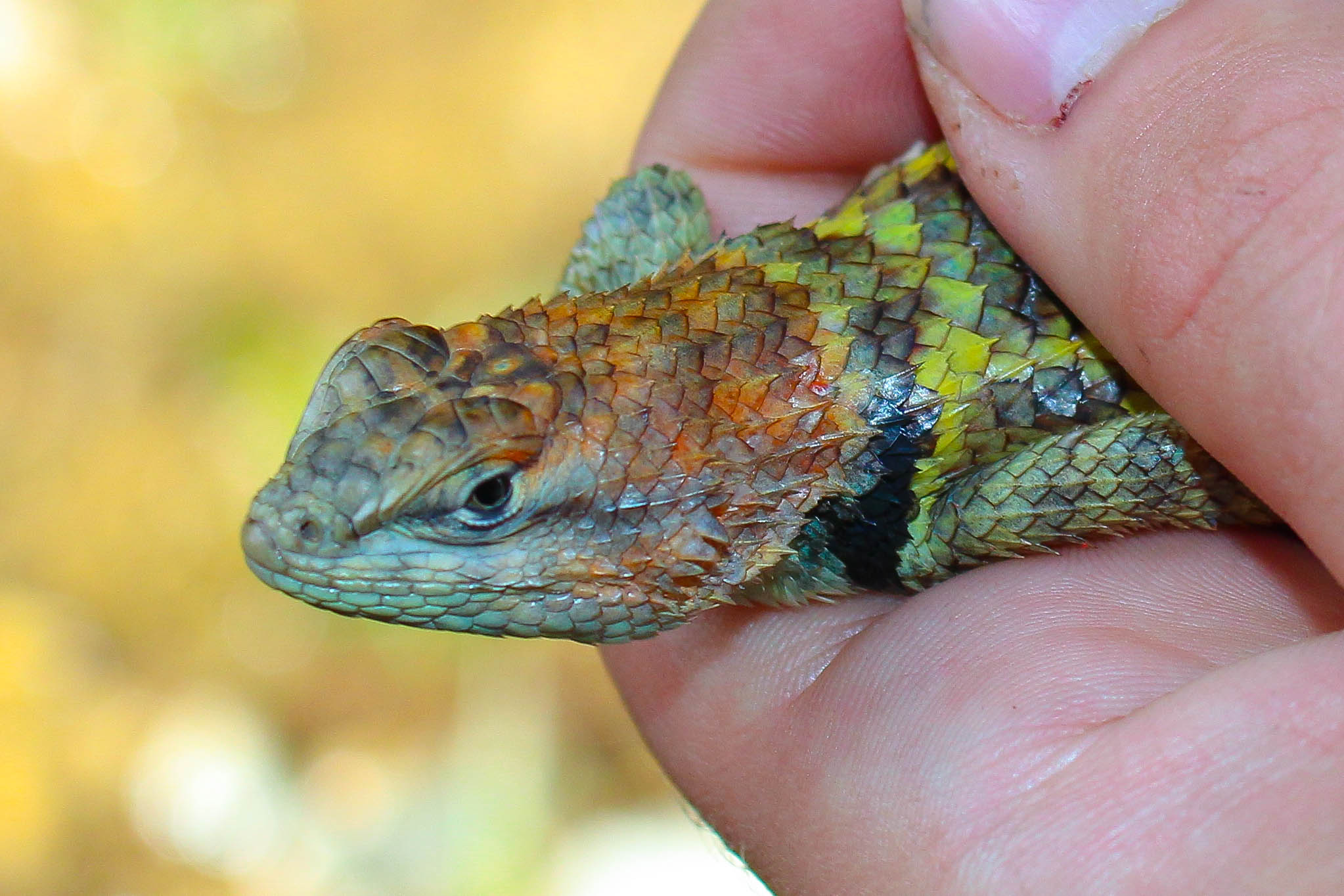 A yellow-backed spiny lizard (Sceloporus uniformis) displaying breeding colors. Inyo County, CA.